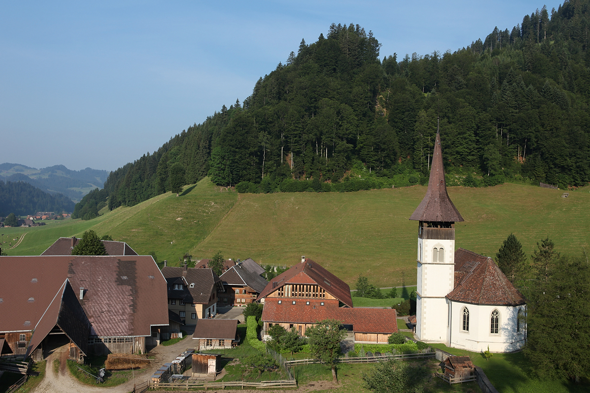 "Kloster" und Kirche von Trub